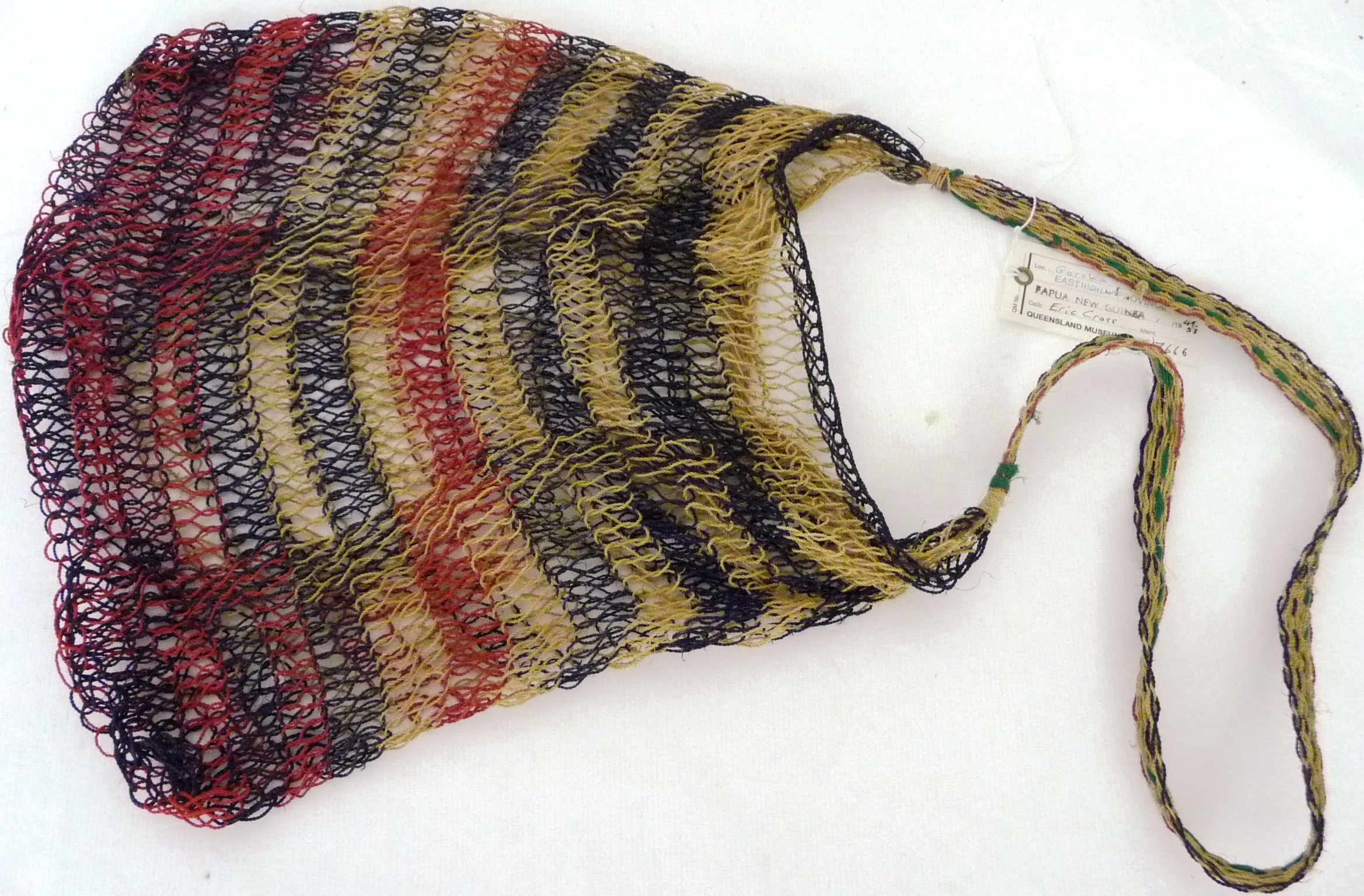 A bilum is a type of bag from Papua New Guinea. Bilums are made to be very strong and flexible, and can expand to many times their size, depending on what the bilum is holding. Object description: This bilum is from Goroka, in the Eastern Highlands Province of Papua New Guinea. It is made from ‘bush rope’, twisted together in a series of loops. History: Bilums are very popular for everyday use in Papua New Guinea. Some bilums are made of ‘bush rope’ and cuscus fur. (A cuscus is a marsupial, and looks similar to a possum.) Other bilums are made of wool and feature brightly coloured designs and patterns. Some women carry their bilum with the strap across their forehead and the bag slung down their back. This method keeps their back straight and their hands free to do other things. Some people use their bilum to hold babies, with the bag hung from a tree branch, swinging in the breeze. Bilums make good beds for babies.